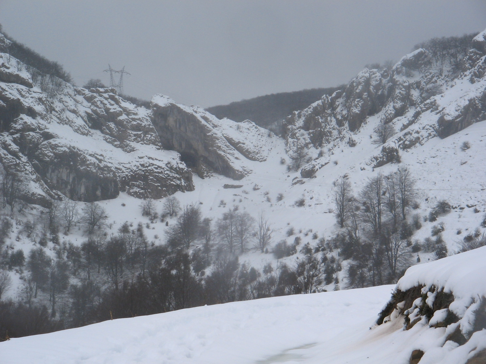 View of the San Adrian tunnel/Lizarrate area gripped by bleak weather conditions in Zegama, Basque Country